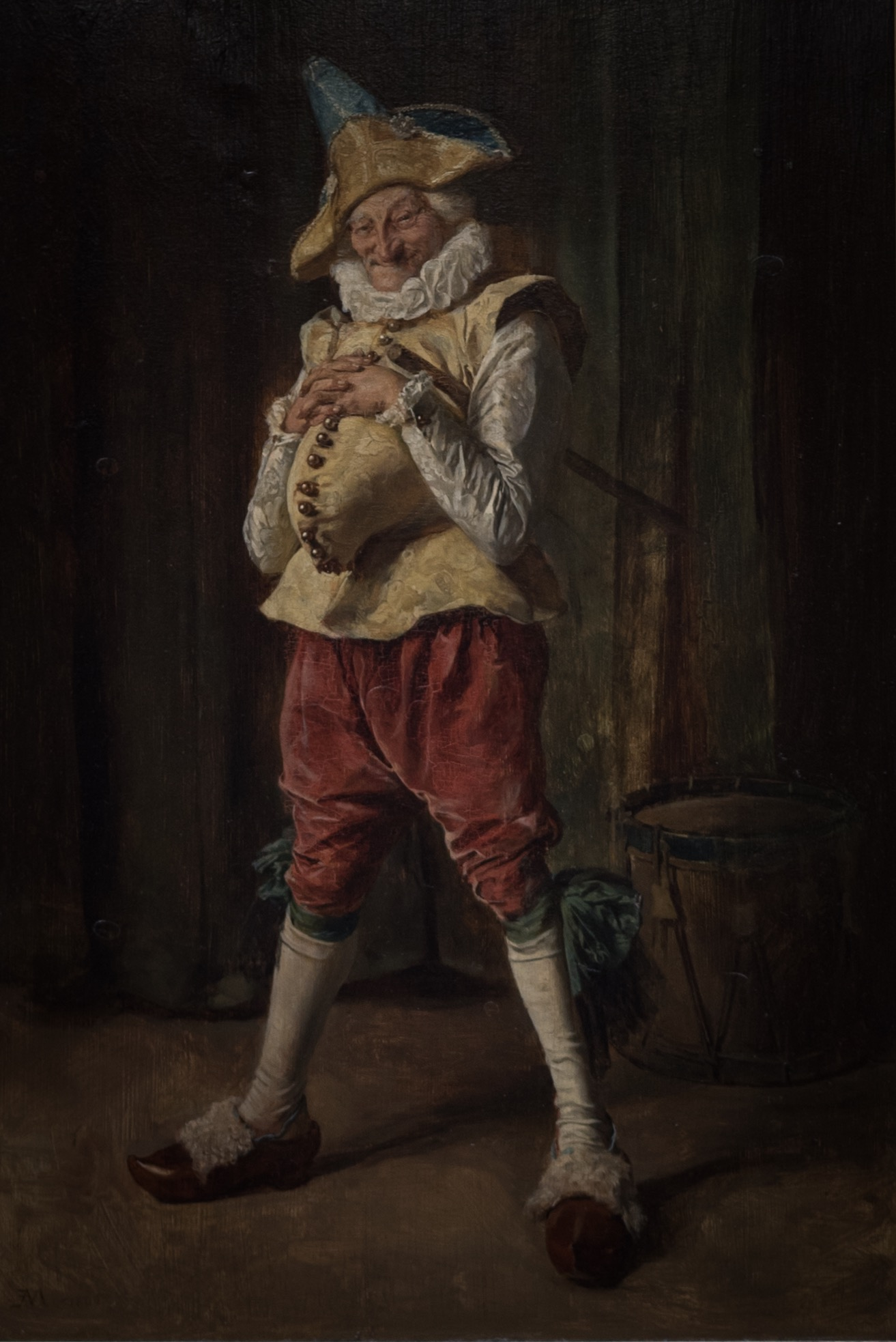 The Wallace Collection